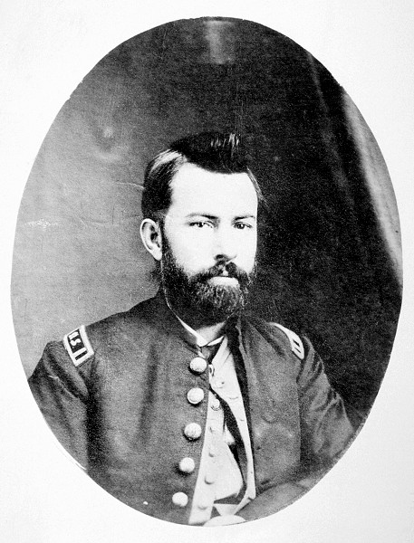 Botanist Edward Palmer in Kansas City, en:1864. Image from National Anthropological Archives, Smithsonian Institution, lot 70, inv. no. 028810.00, neg. no. 80-17994.